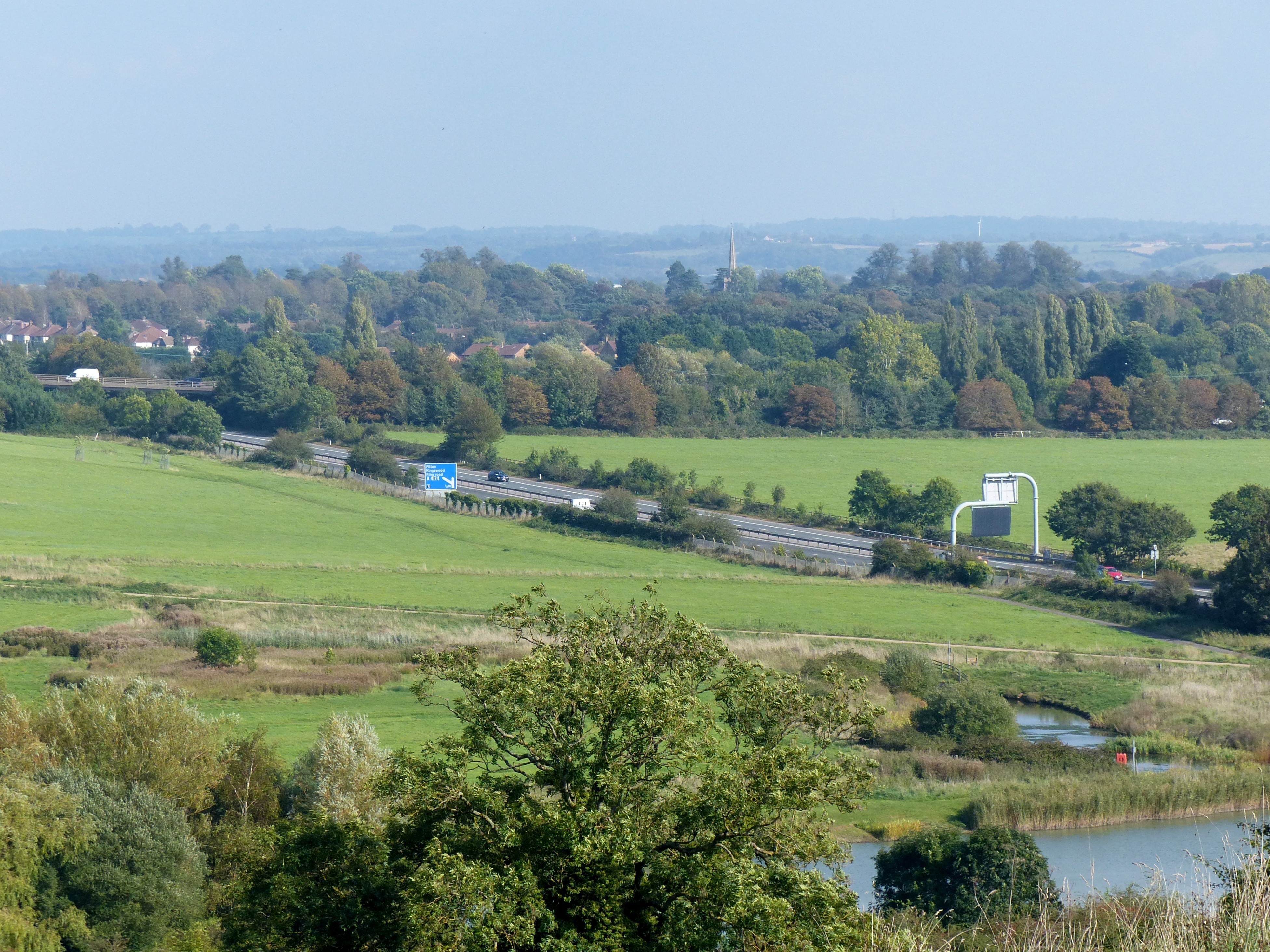 The M32 motorway, Bristol, England, seen from inside Stoke Park, with Duchess Pond (a fishing lake) in the foreground. The view is looking east. The blue motorway sign says that it is one third of a mile to Junction 1, which is the exit for Filton, Kingswood, the north Bristol Ring Road, and the A4174. The black car and the red car are travelling towards Bristol. A road bridge crosses the motorway, on the left of the picture.